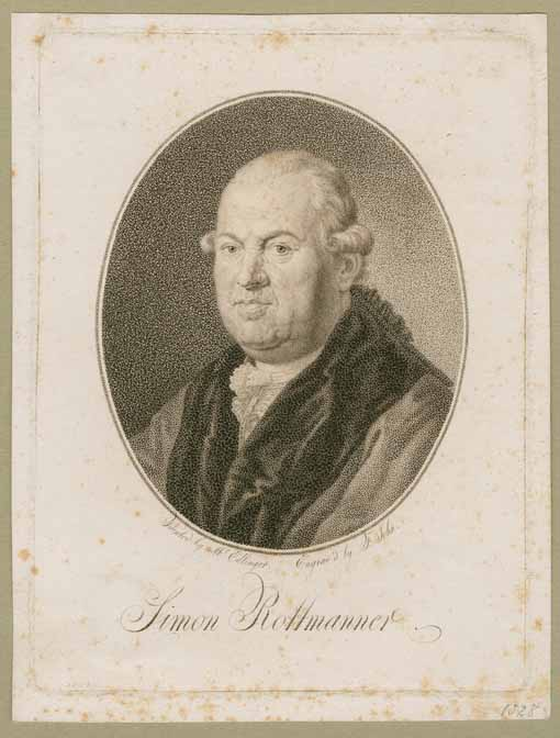 The bavarian farmer and jurist Simon Rottmanner (1740-1813)